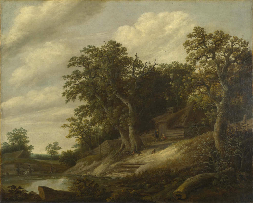 Cornelis Decker: A Cottage among Trees on the Bank of a Stream